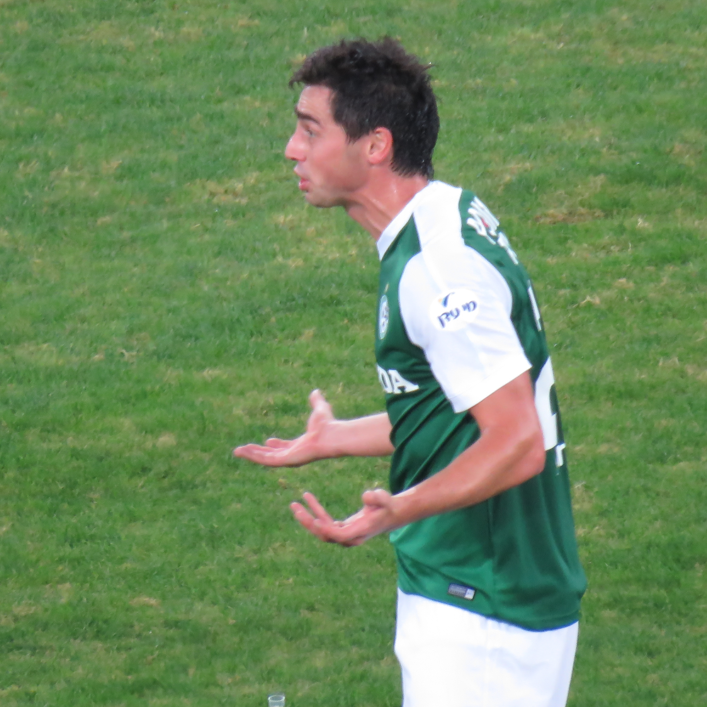 December 2016